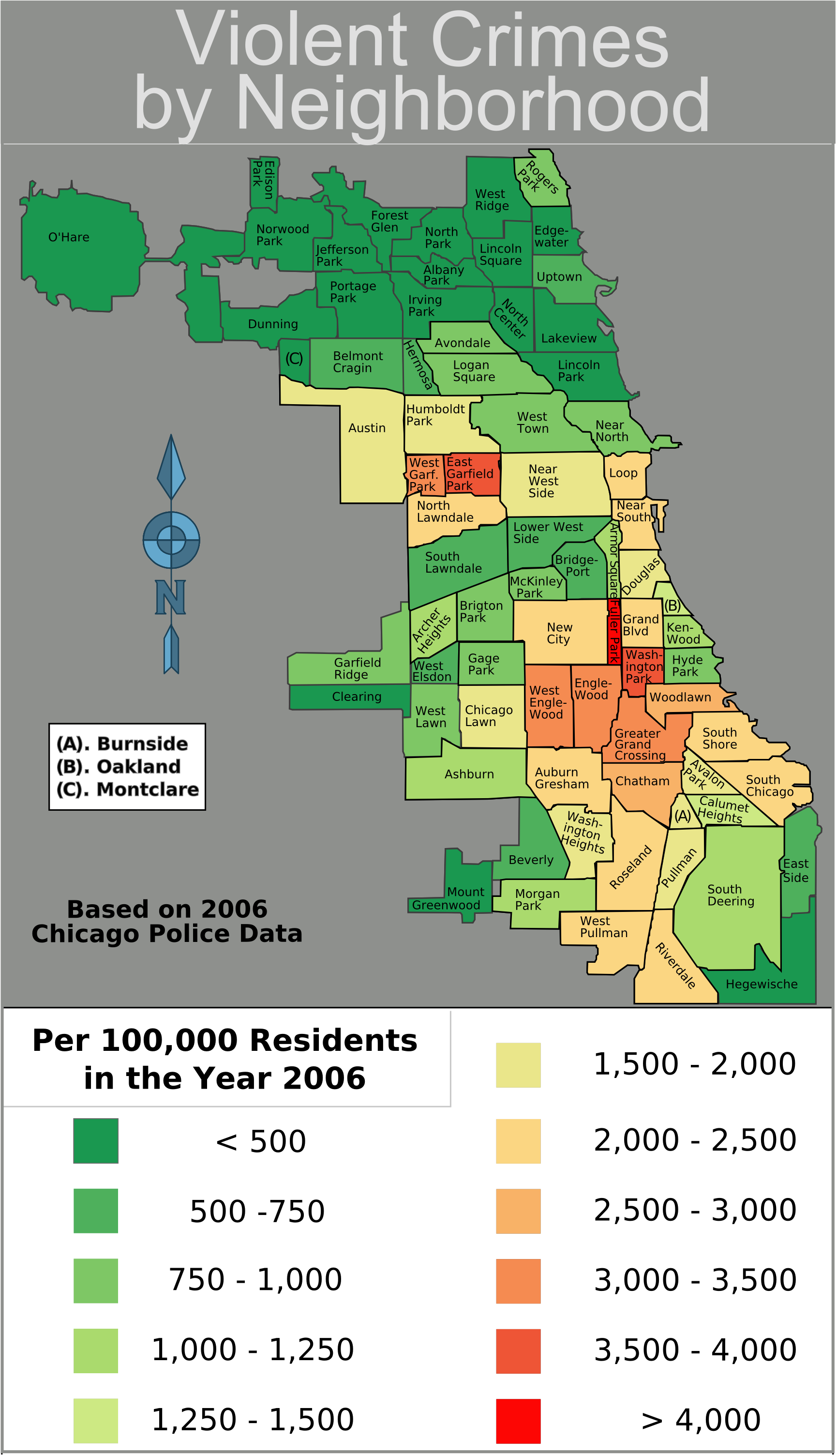 Map of violent crimes in 2006 in Chicago community areas per 100,000 residents